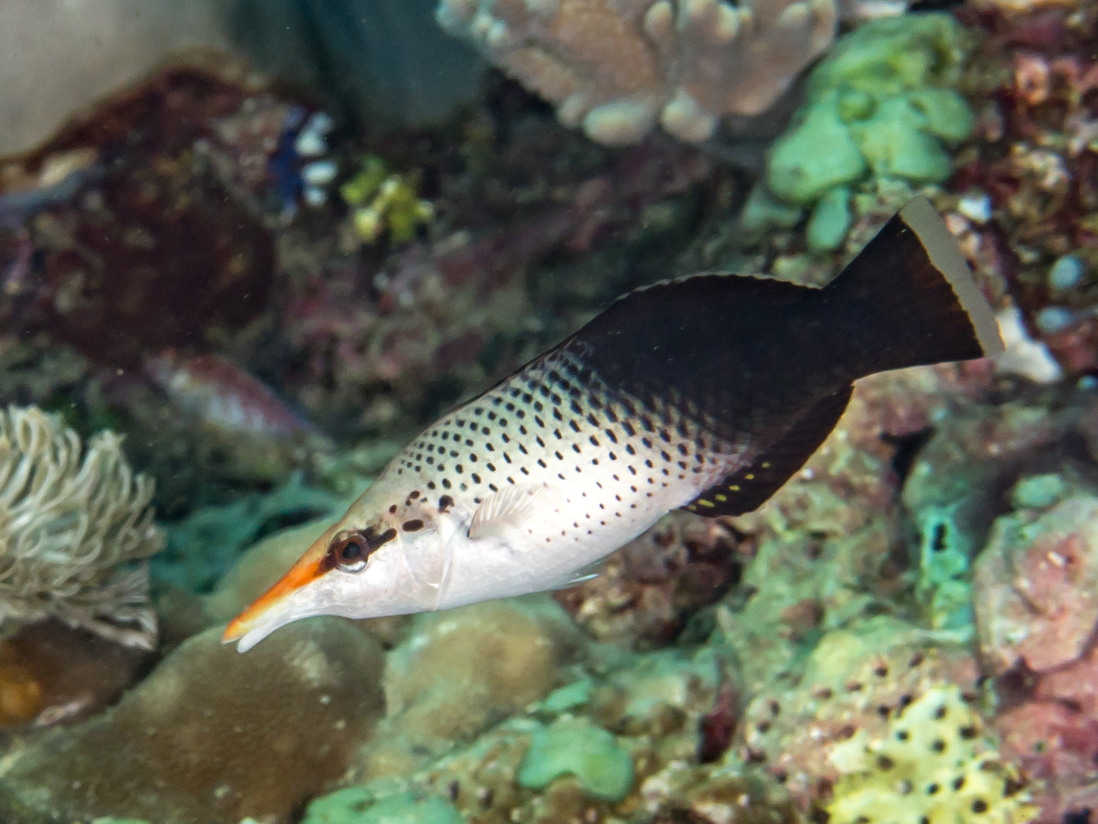 Morotai, Indonesia - Pacific bird wrasse female (Gomphosus varius)